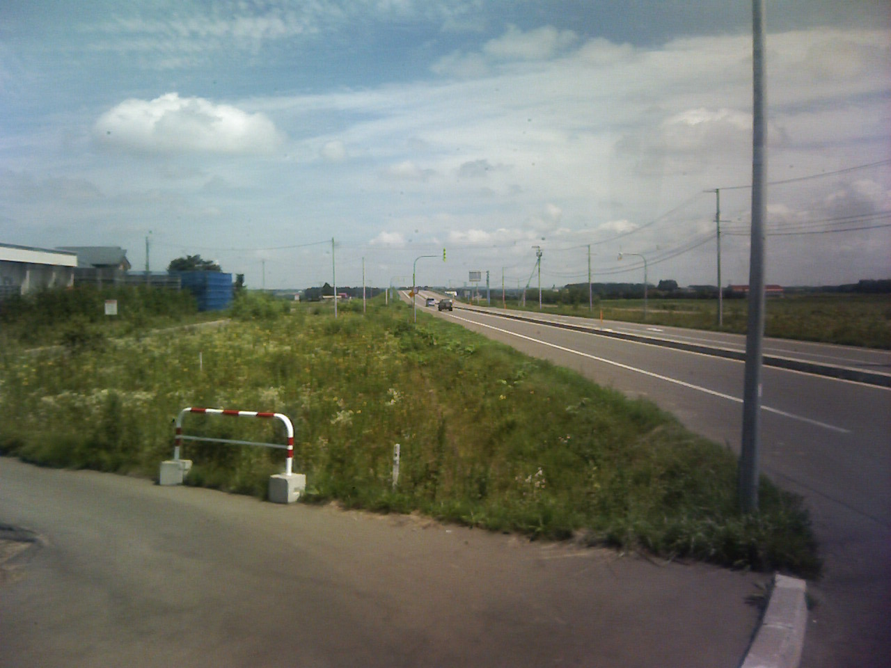 Hokkaido prefectural road route1157, Obihiro, Hokkaido, Japan